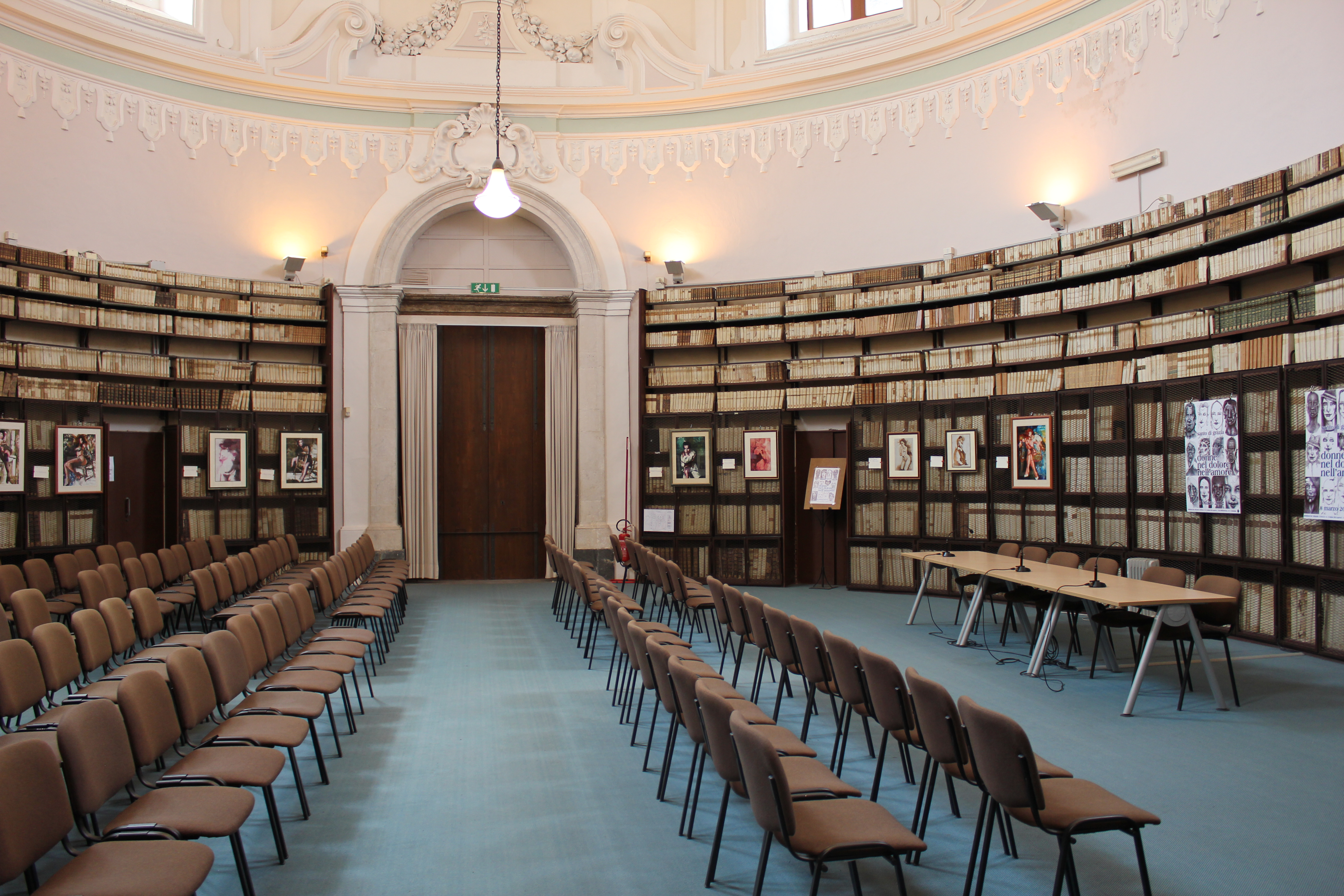 Catania, Biblioteche Riunite "Civica e A. Ursino Recupero”, Refettorio piccolo